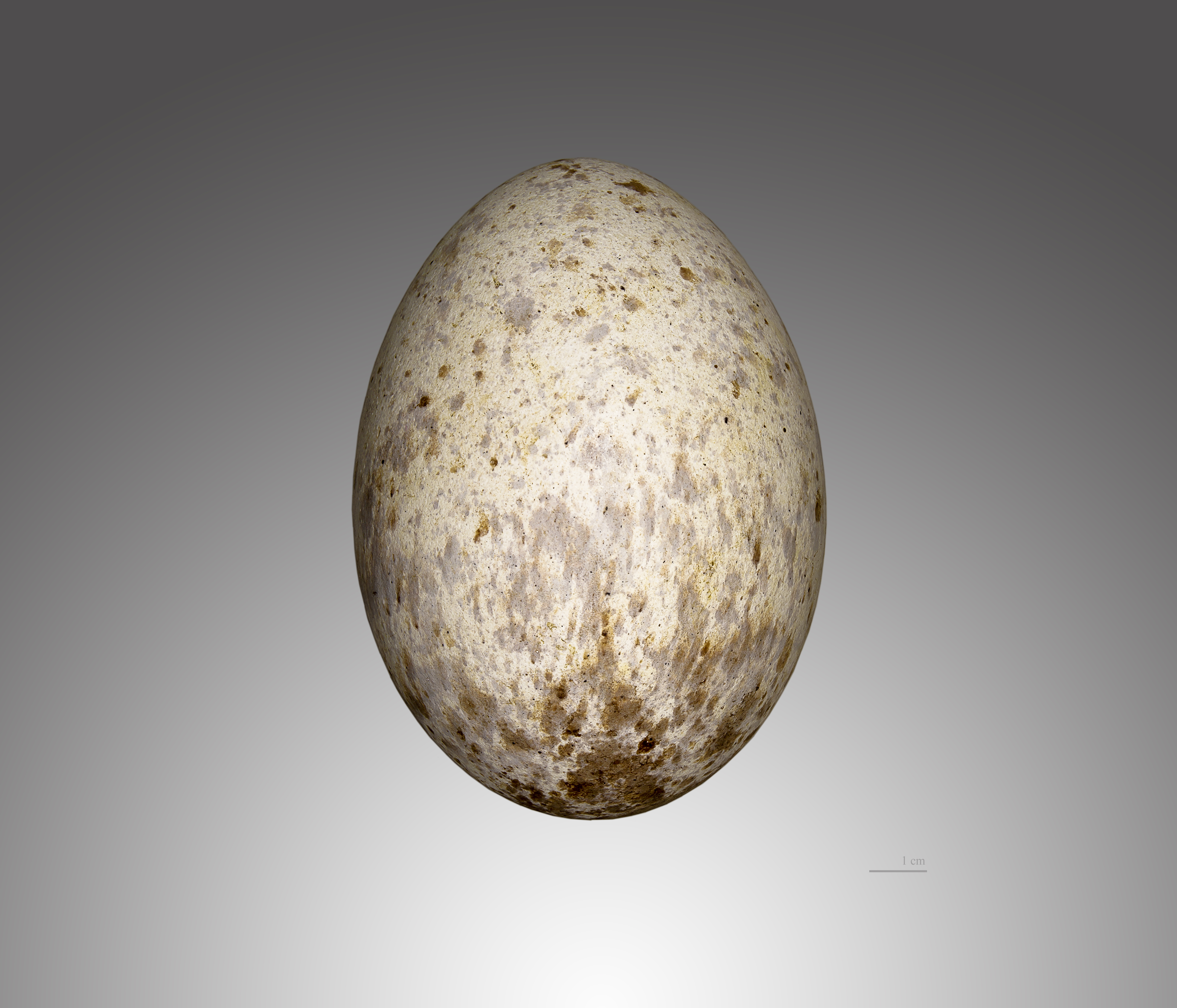 Egg of Cinereous Vulture. Collection of René de Naurois /Jacques Perrin de Brichambaut. Locality: Bulgaria.